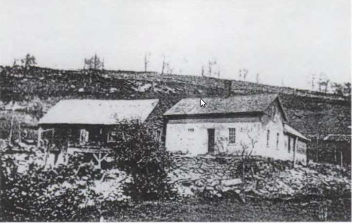 Daniel and Abigail Shays' Pelham, MA farmhouse, circa 1898. This "Cape style" home was standard amongst local farmers at the time.